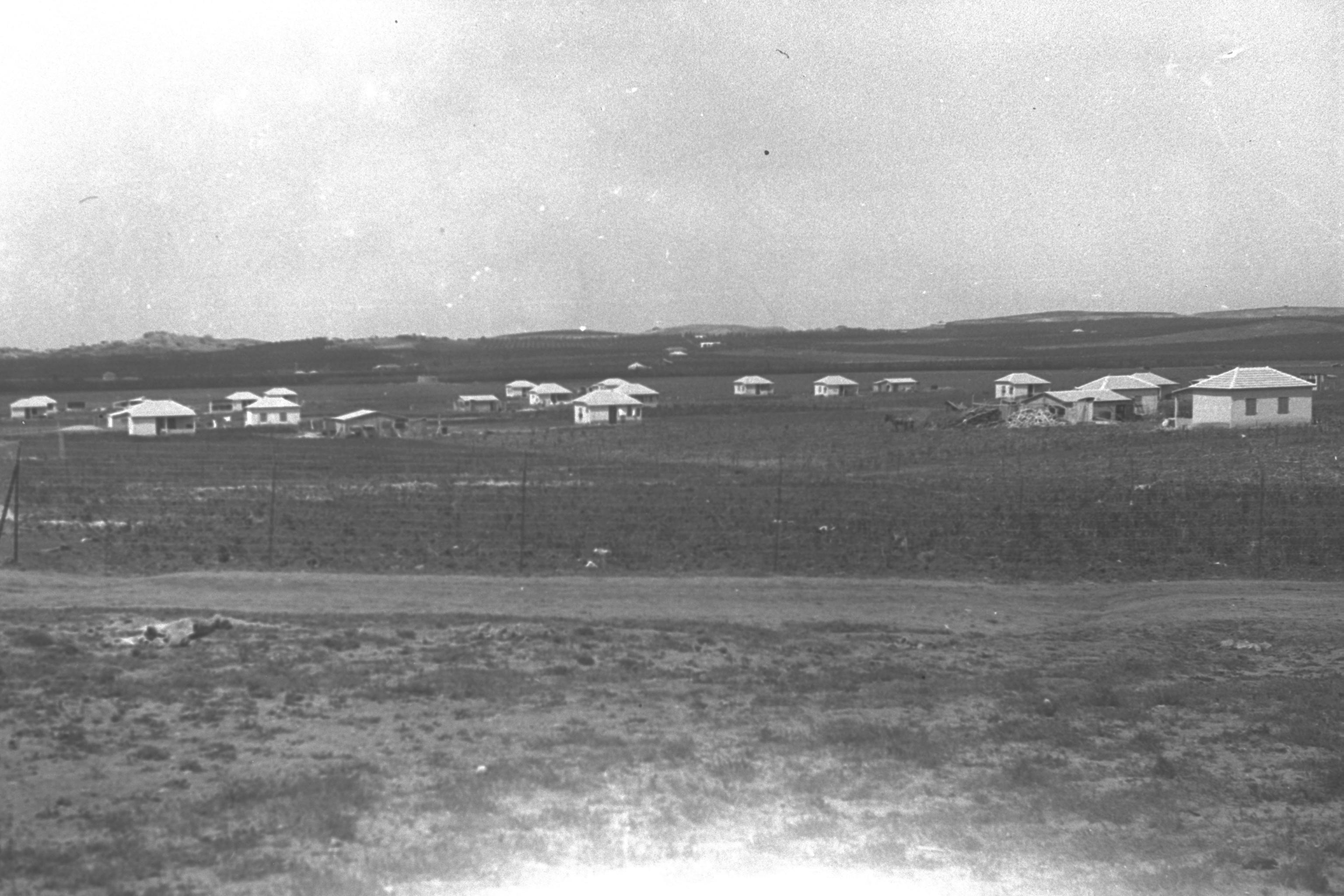 VIEW OF KFAR MARMOREK, A SUBURB OF REHOVOT. כפר מרמורק ליד רחובות.